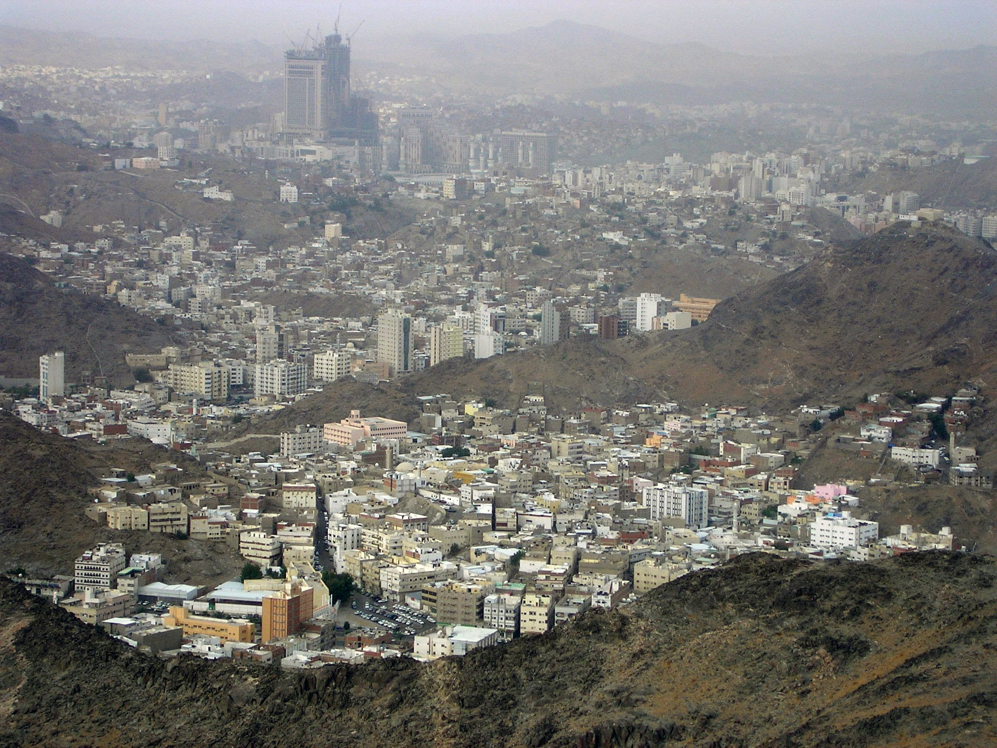 mecca from jabal al nur